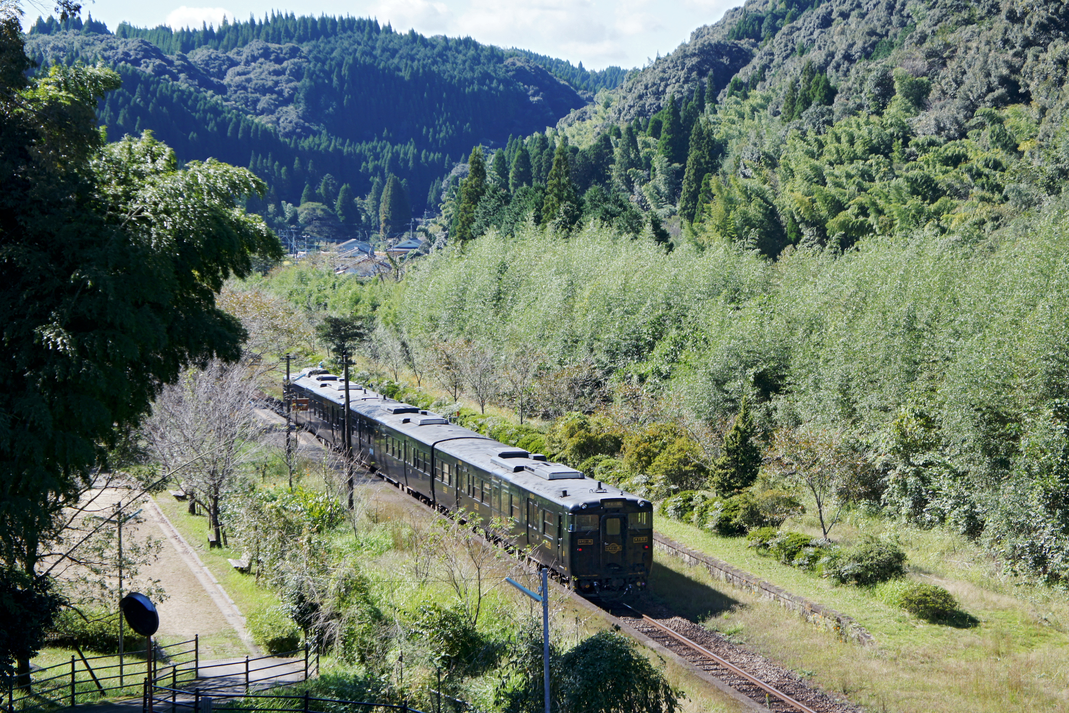 Hayato no Kaze at Kirishima, Kagoshima prefecture, Japan